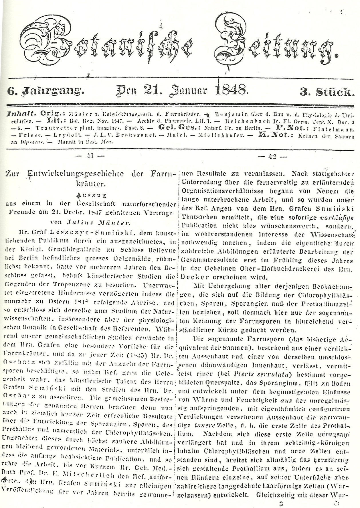 Title page of Botanische Zeitung (21.01.1848)